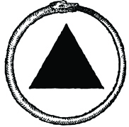 Sacred Bones Records Logo